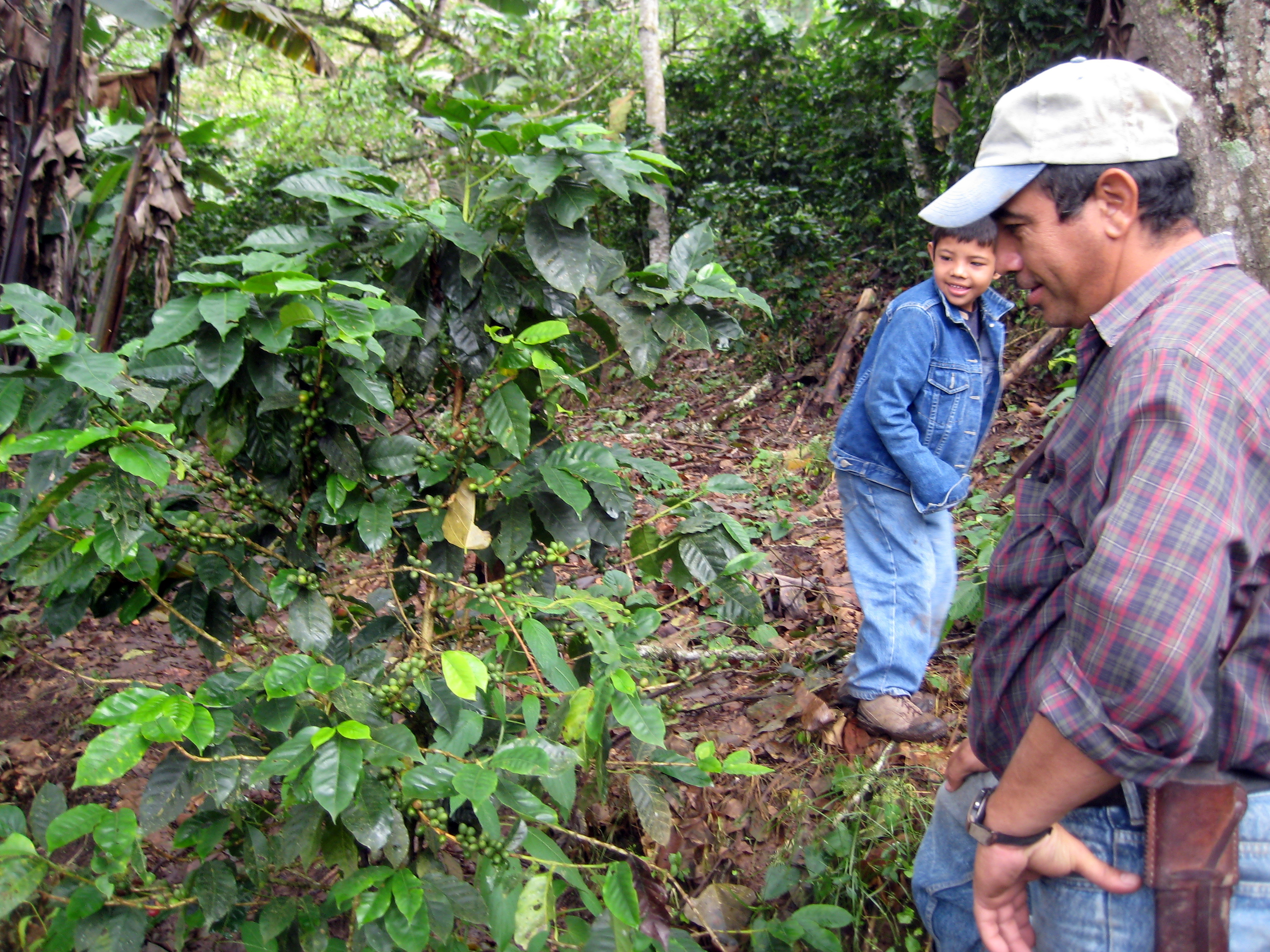 Coffee Plant near the Quilalí - San Juan del Río Coco border.